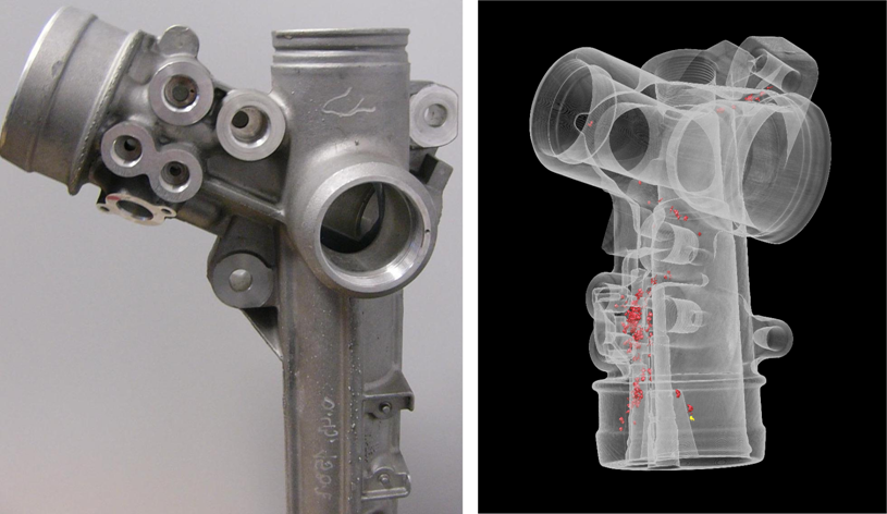 Photograph and 3D CT image of a casting.